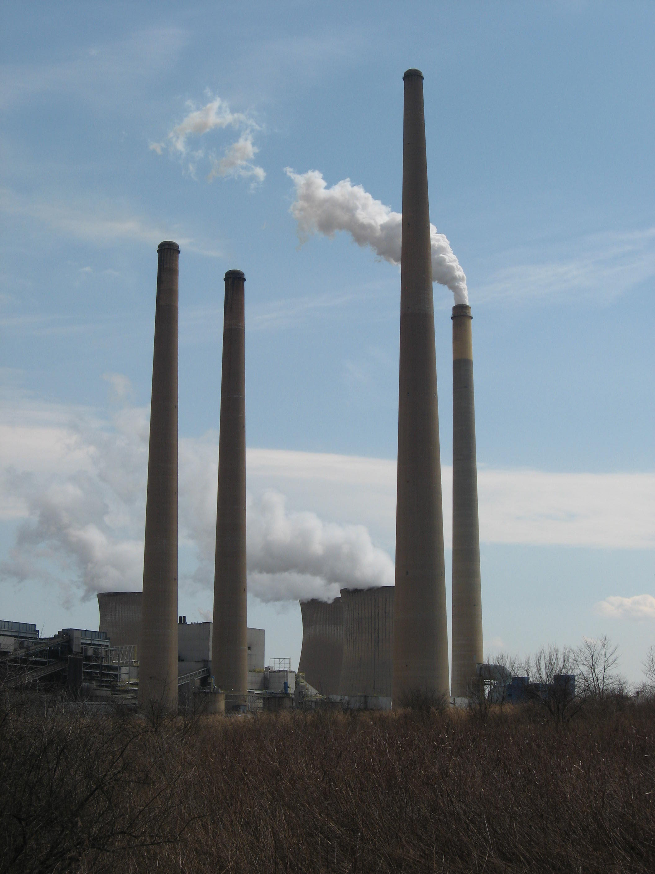 HC Generating Towers of the Homer City Generating Station — a power plant in Homer City, Indiana County, Pennsylvania. Kominy elektrowni w Homer City.